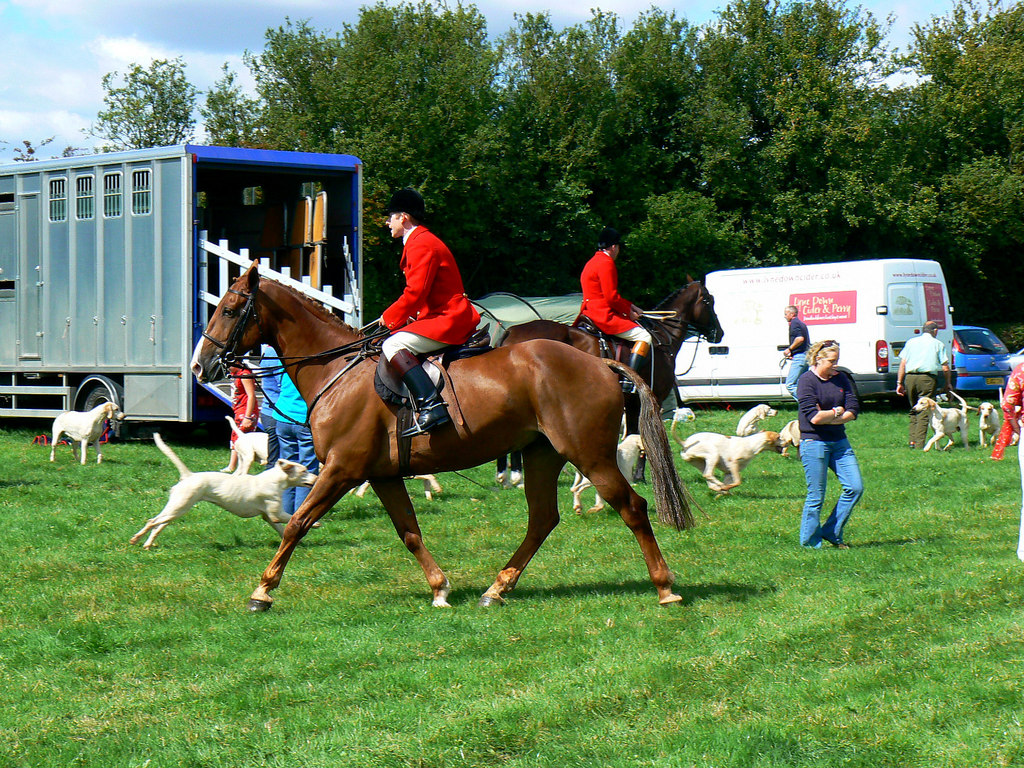 Vale of White Horse Hunt, Cricklade Show 2010